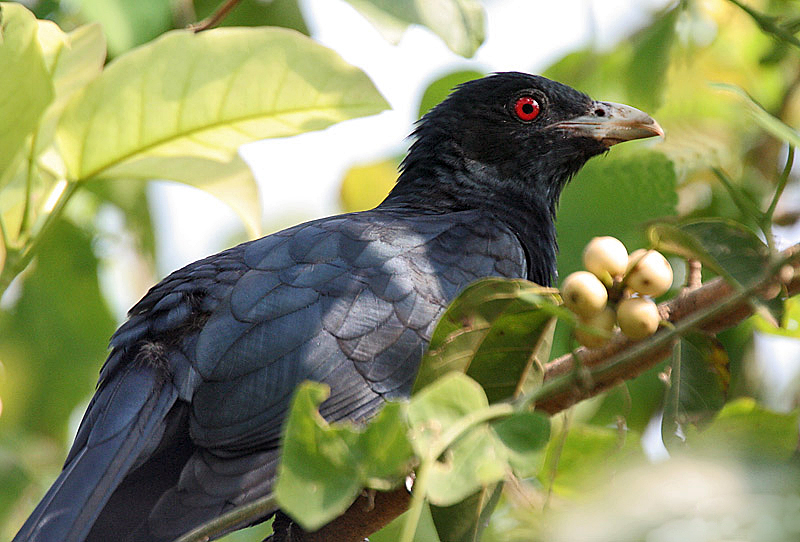 Asian Koel Eudynamys scolopaceus in Kolkata, West Bengal, India.